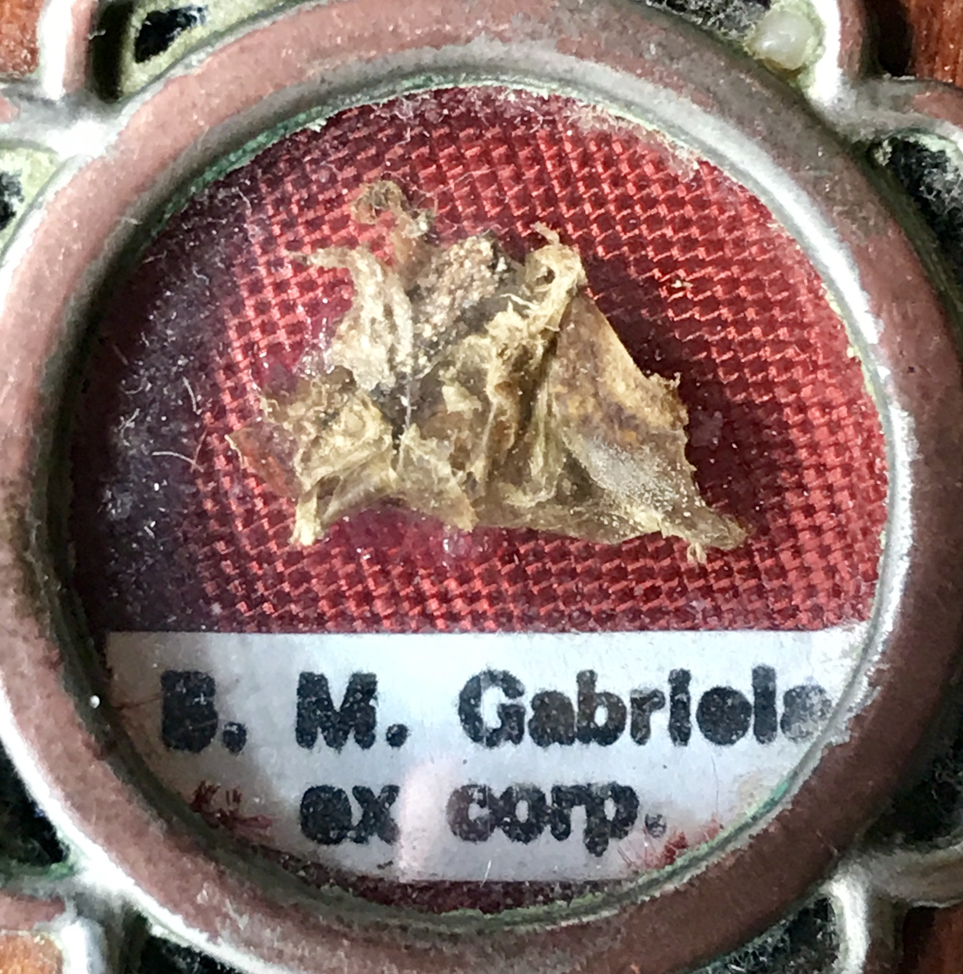 Blessed Maria Gabriela first class relic ex corp